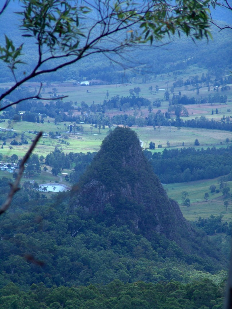 Egg Rock in Lamington National Park, as seen from Binna Burra. Photograph by User:Johncatsoulis John Catsoulis, Egg Rock in Lamington National Park, as seen from Binna Burra. Photograph by John Catsoulis